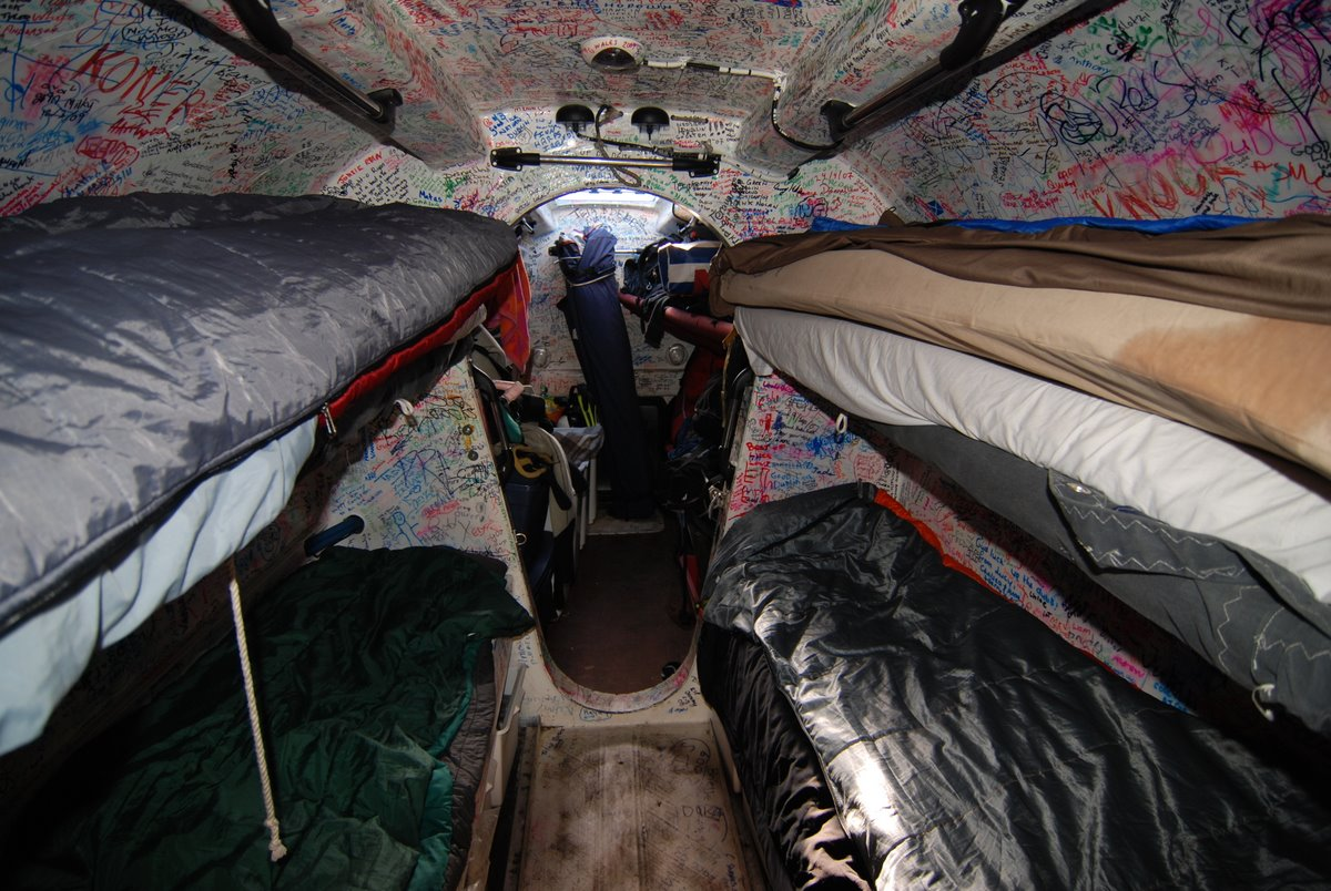 EARTHRACE is not a luxury boat, and sleeping conditons are fairly spartan and cramped. Surprisingly comfy bunks tho!